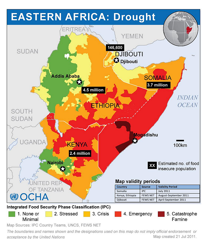 Map Eastern Africa Drought July 2011